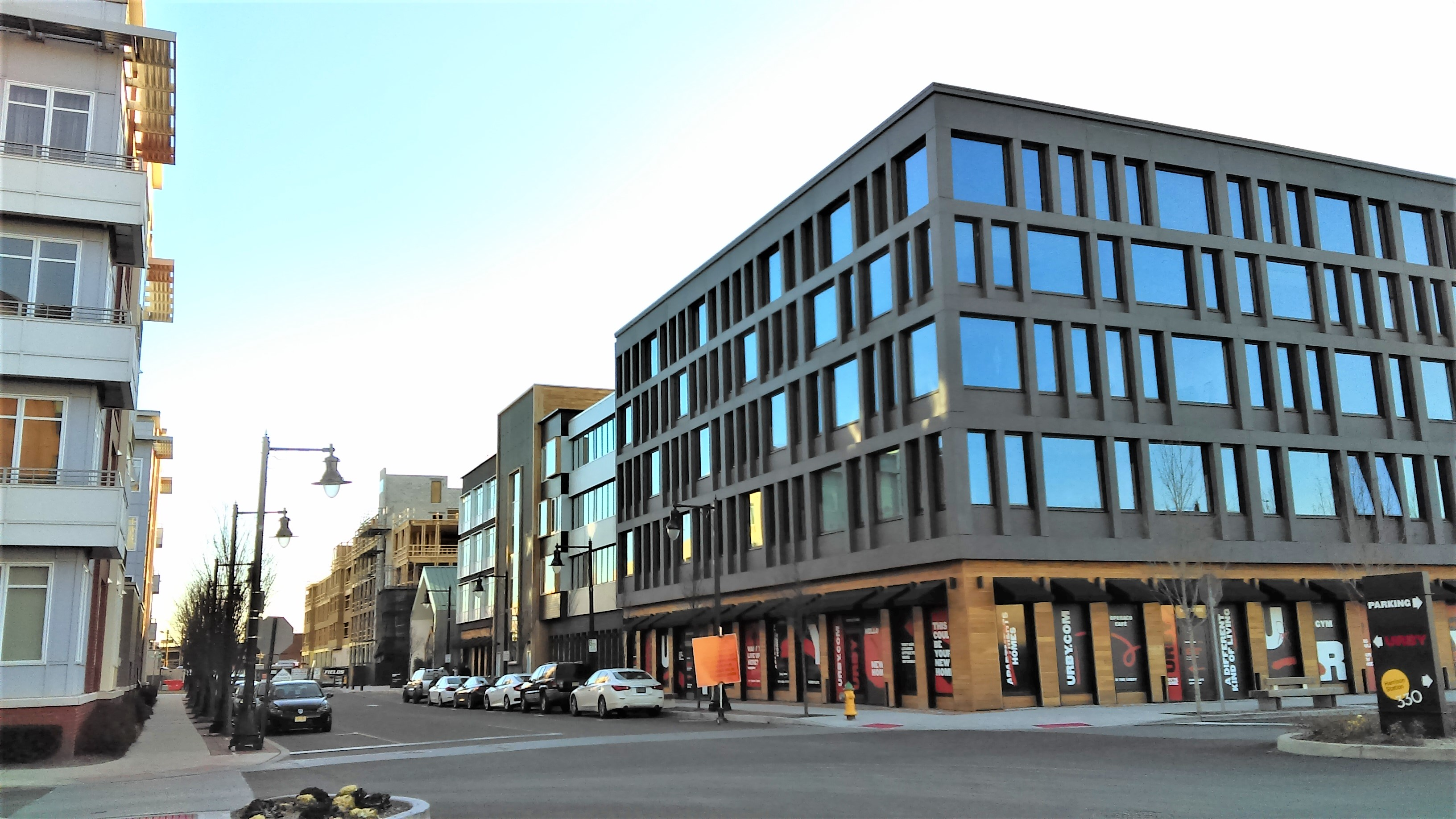 Cifelli Drive at South Third Street